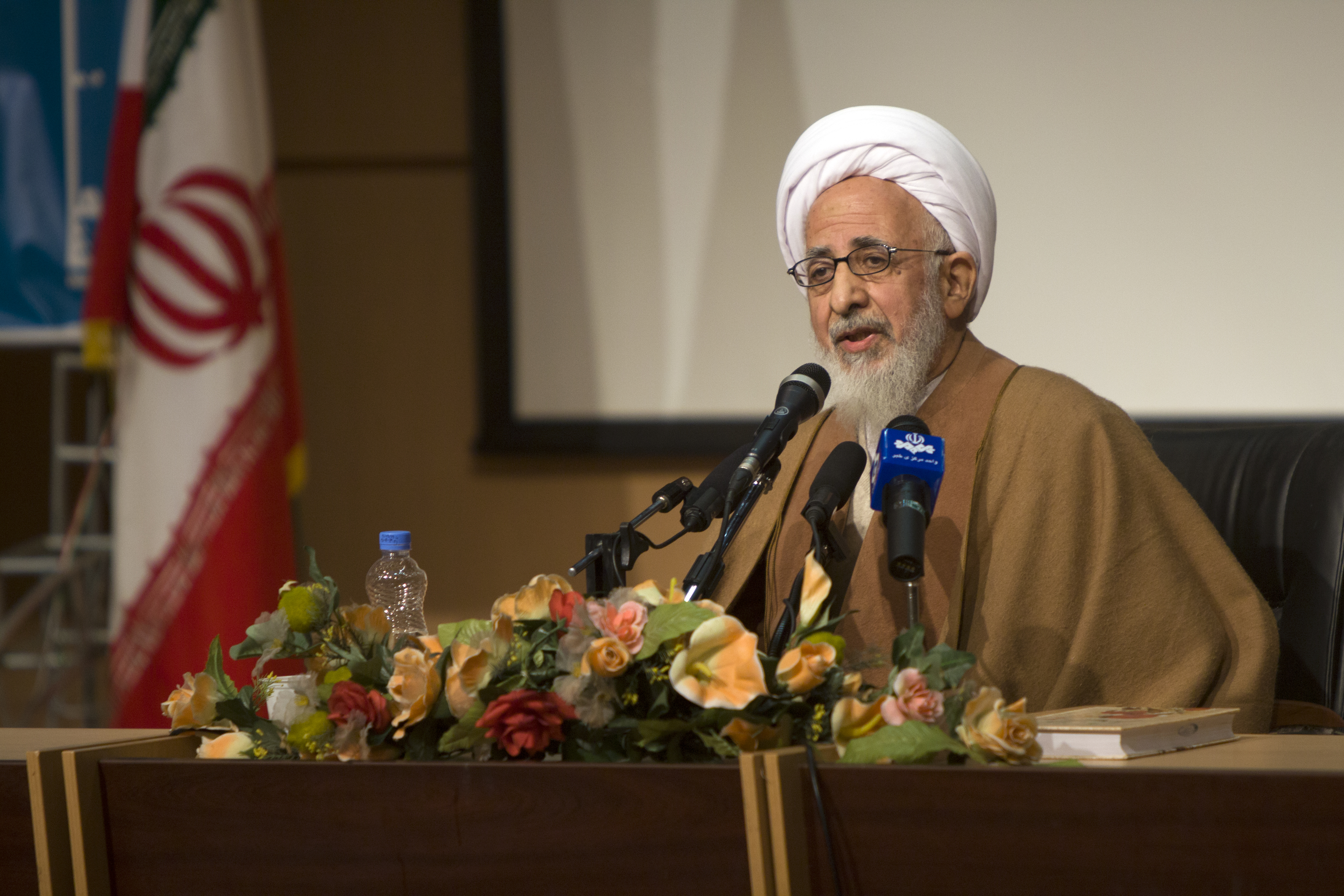 عبدالله جوادی آملی (زادهٔ ۱۳۱۲، آمل)، فقیه، مفسر قرآن و مدرس حوزه علمیه قم و از مراجع تقلید شیعه ایرانی است. وی سابقه عضویت مجلس خبرگان قانون اساسی، جامعه مدرسین حوزه علمیه قم، مجلس خبرگان رهبری، شورای عالی قضایی را داشته و سالها یکی از امامان جمعه موقت قم بوده است.